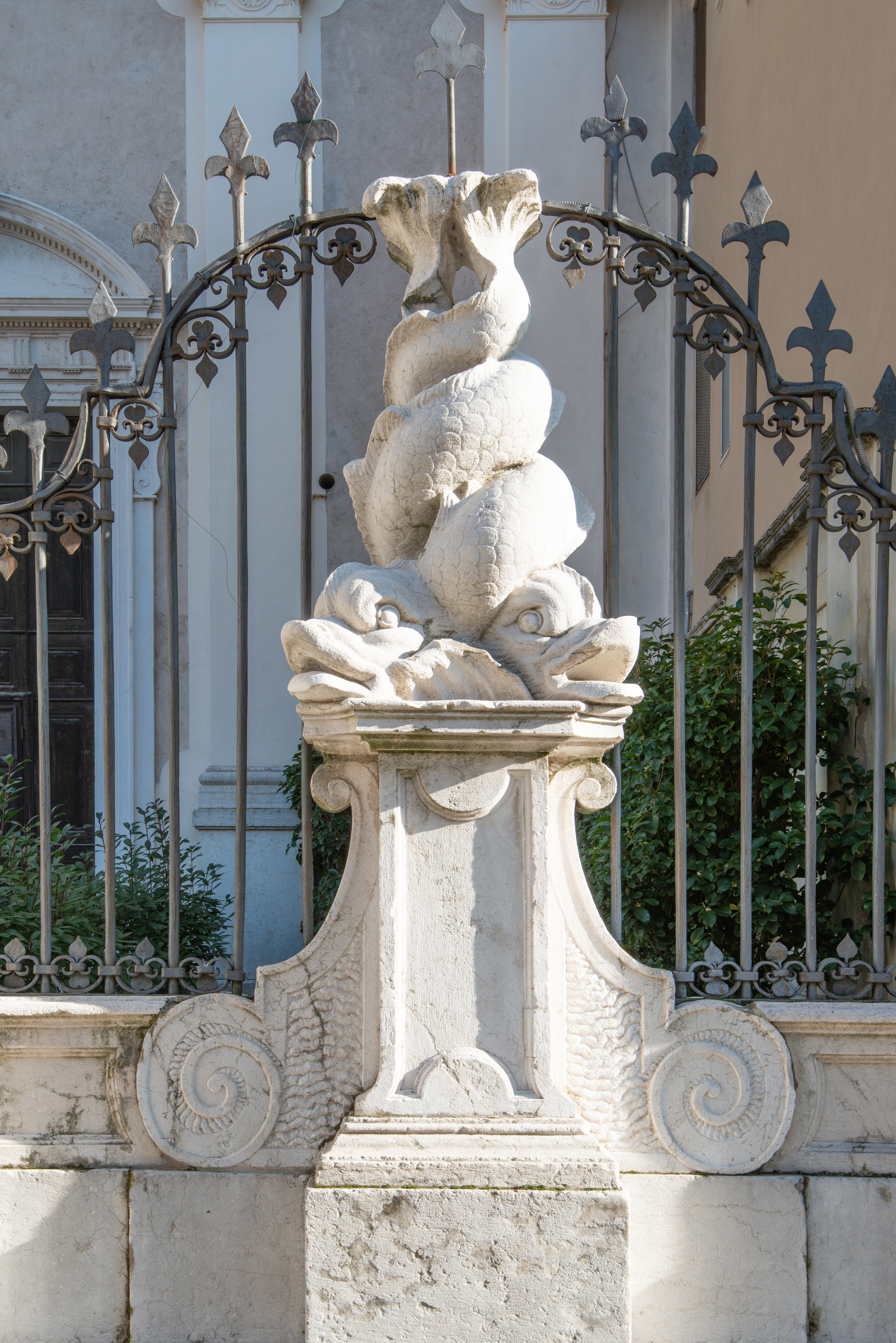 San Zeno al Foro church in Brescia.